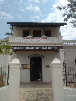 Tranquebar maritime museum, Tranquebar, Nagapattinam district, Tamil Nadu